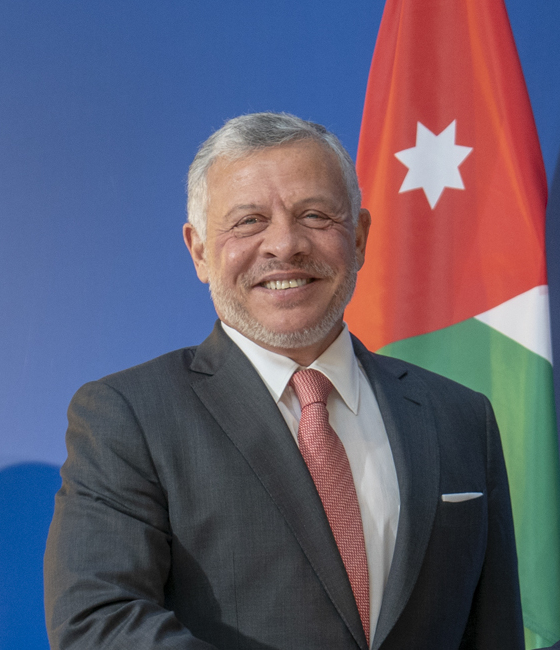 “Peace-making is the harder but higher path,” said King Abdullah II of Jordan addressing the European Parliament in Strasbourg today.